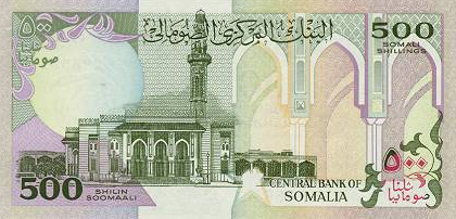 A 500 Somali Shilling (Shilin Soomaali) banknote.